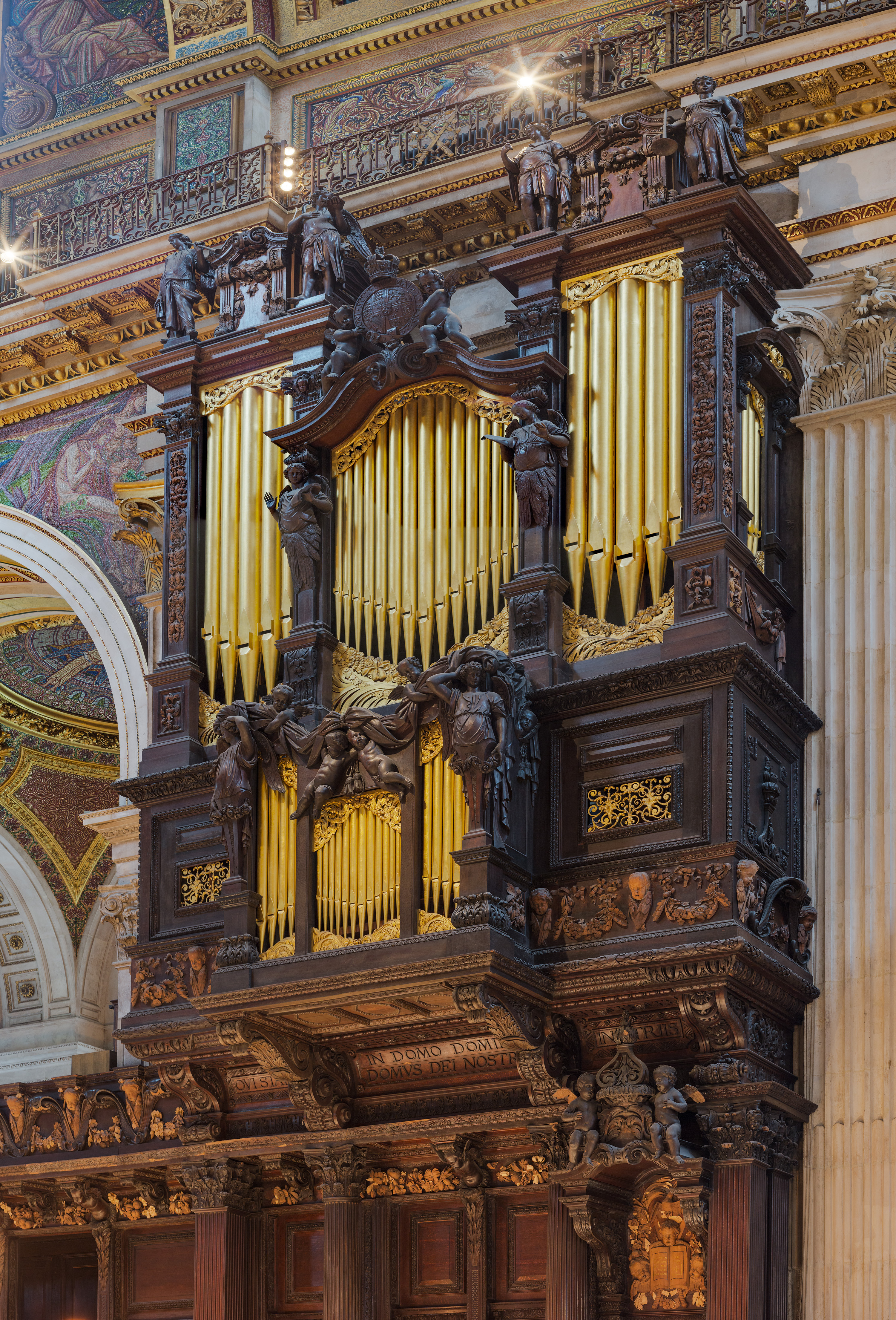 The southern organ (the other being on the northern side) of the choir of St Paul's Cathedral.